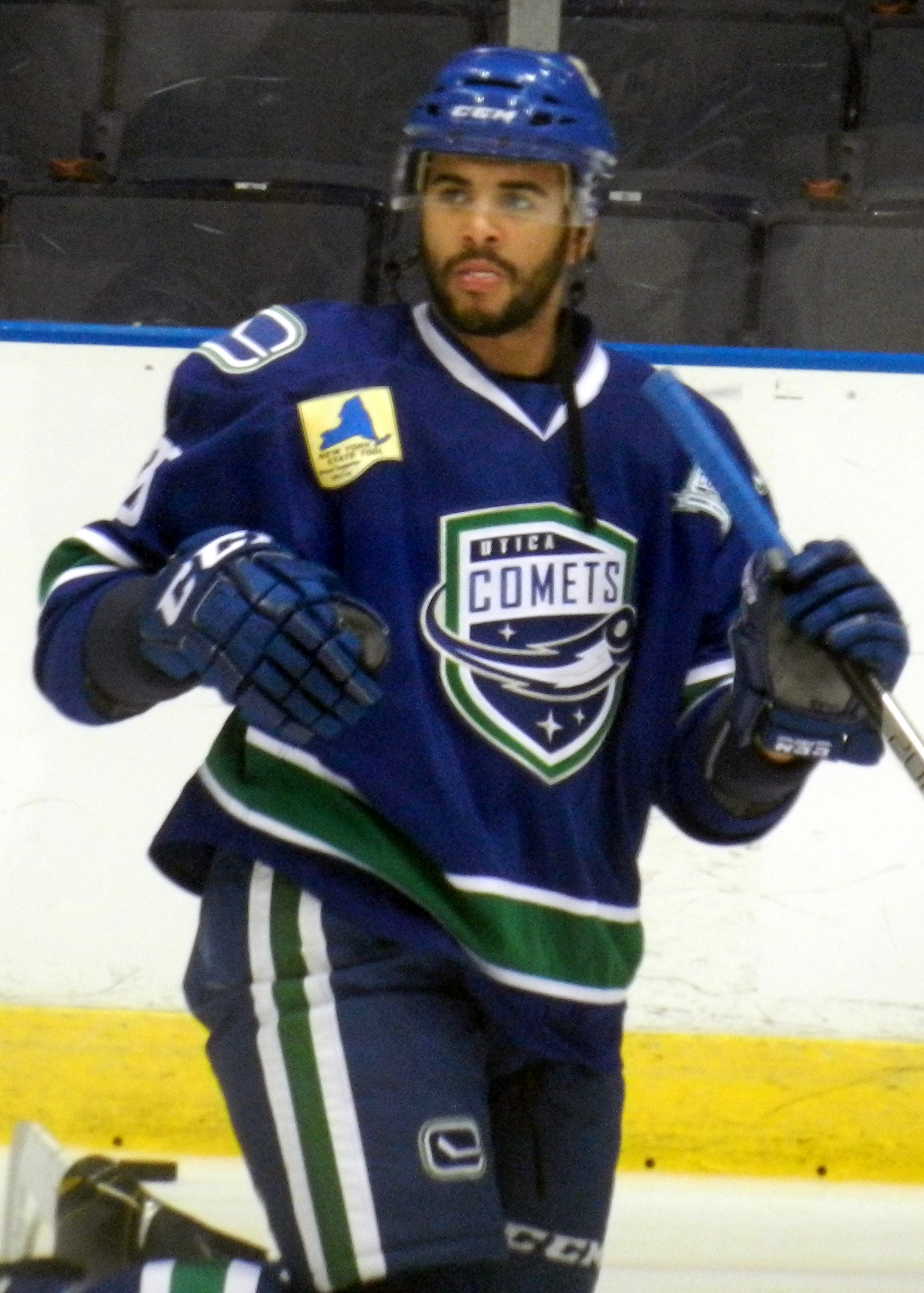 Darren Archibald stretching during warm-ups before a Utica Comets game during the 2013-14 AHL season